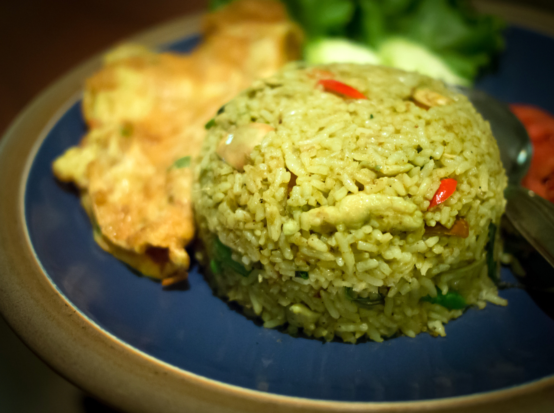 Khao phat kaeng khiao wan (Thai script: ข้าวผัดแกงเขียวหวาน) is rice fried with green curry. This particular version was fried with pork.